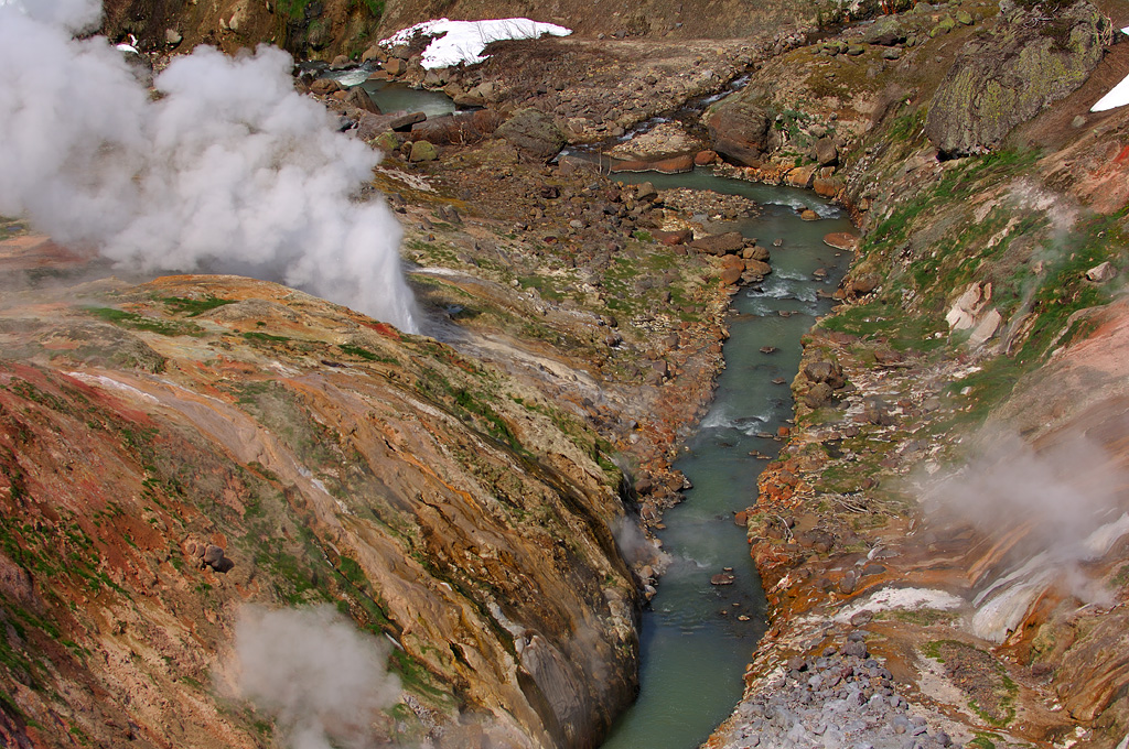 Geyser River in May, Kronotsky Zapovednik